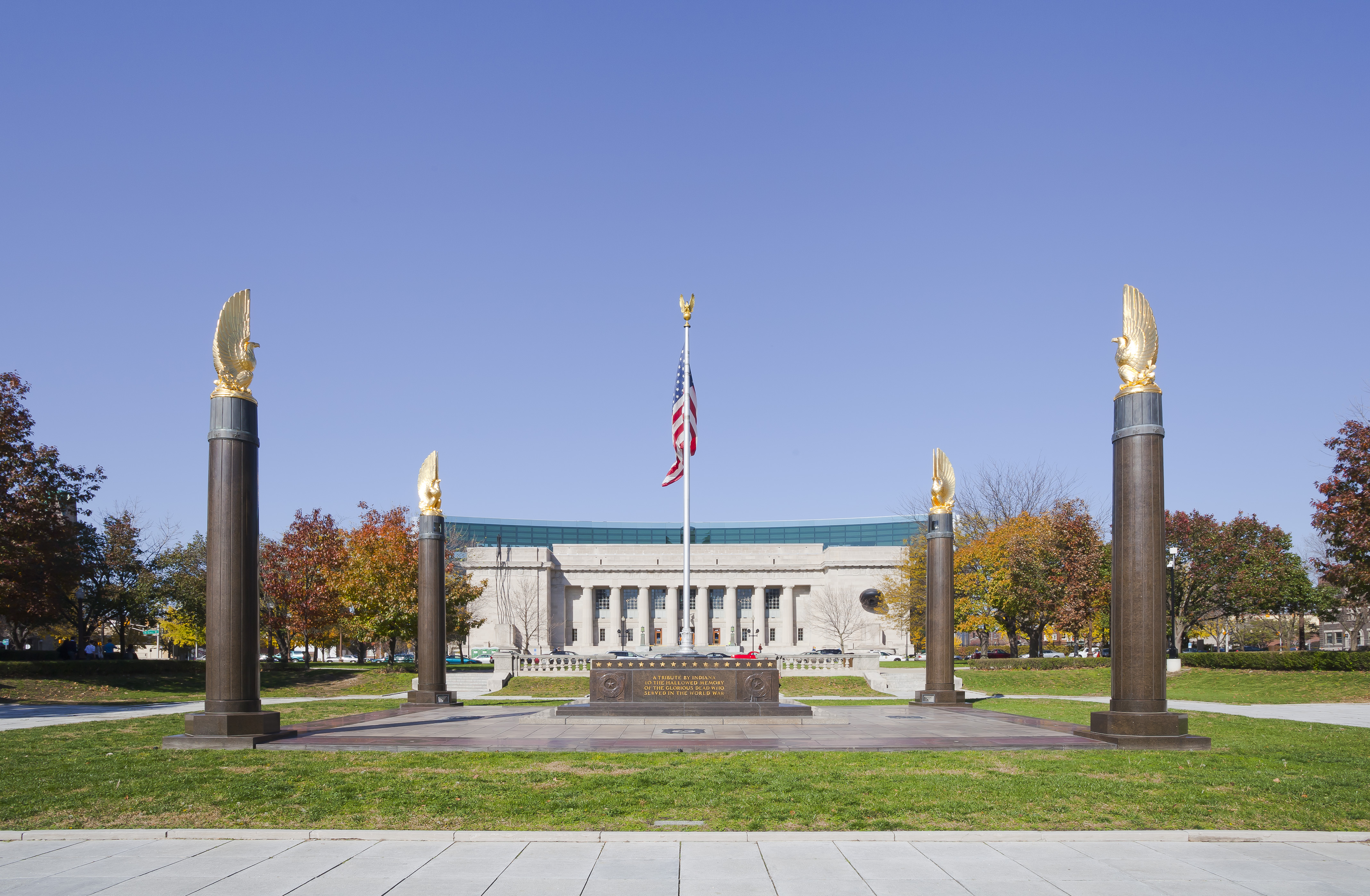 Central library, Indianapolis, USA